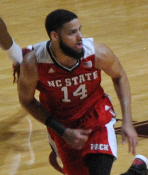 Seth Allen leads the fast break for the Hokies